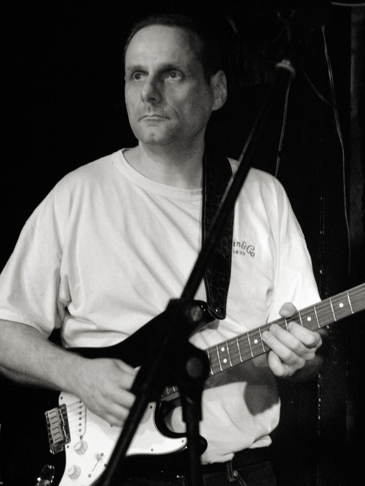 Tom Klein (Liquid Soul) own photo, may 27, 2004- photo: nomo/michael hoefner